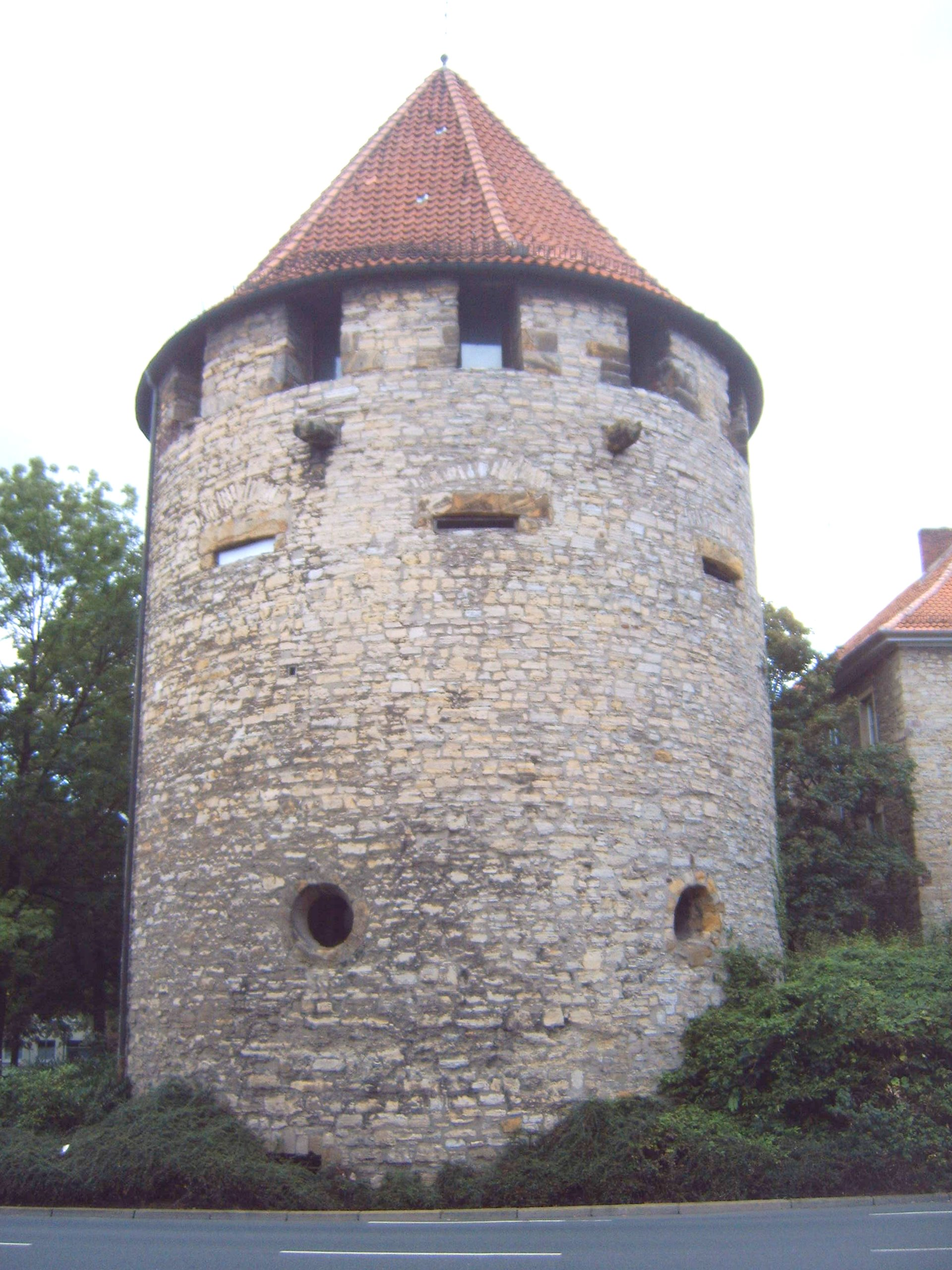 So-called Bürgergehorsam-Tower (a former city-prison) in Osnabrück, Germany